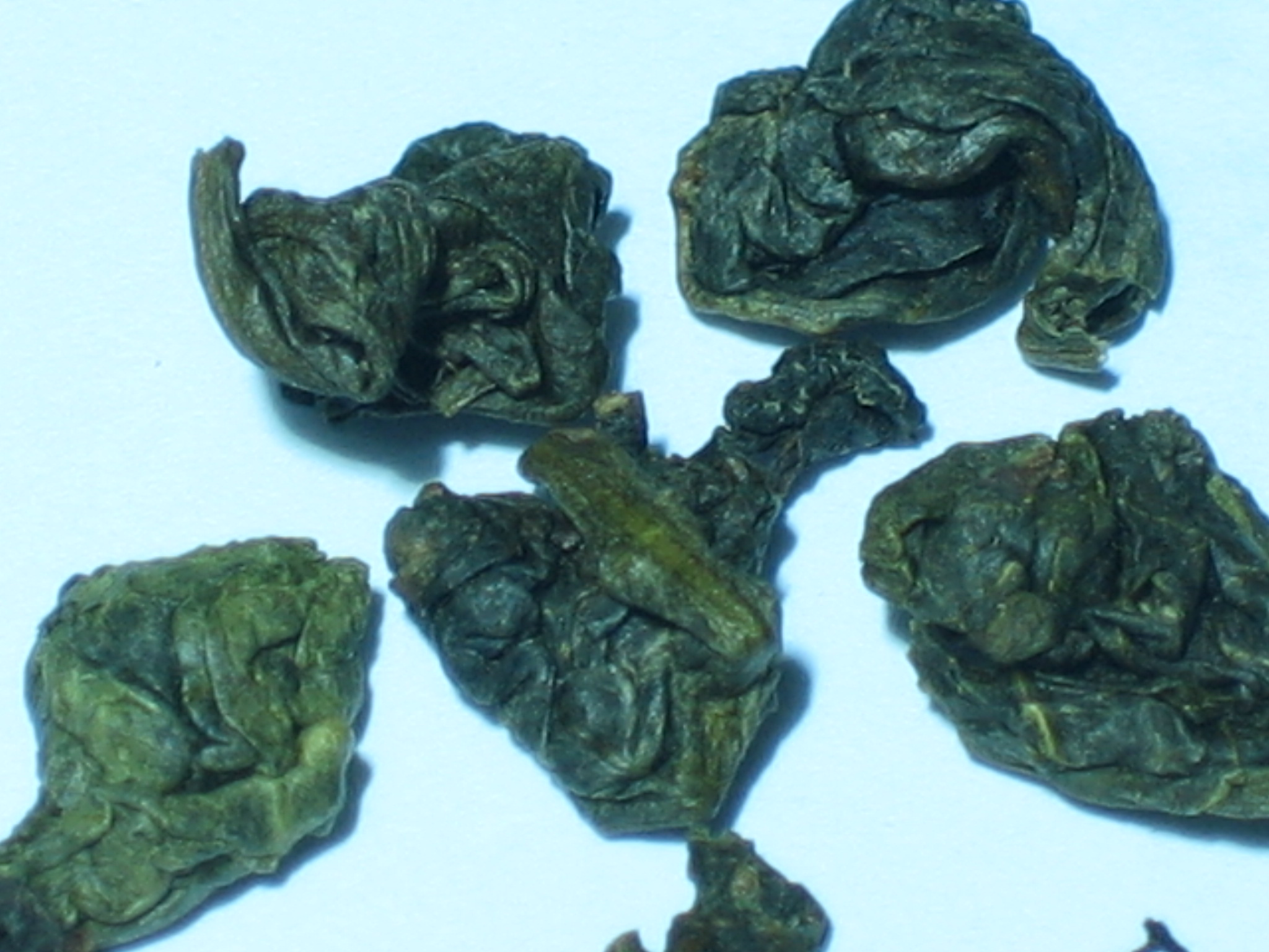 Tin Kuan Yin leaves at a sheet of paper